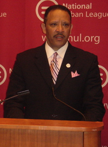 Marc Morial, former mayor of New Orleans, speaking, Washington, D.C. Thursday, July 28, 2005 National Urban League Conference Washington Convention Center